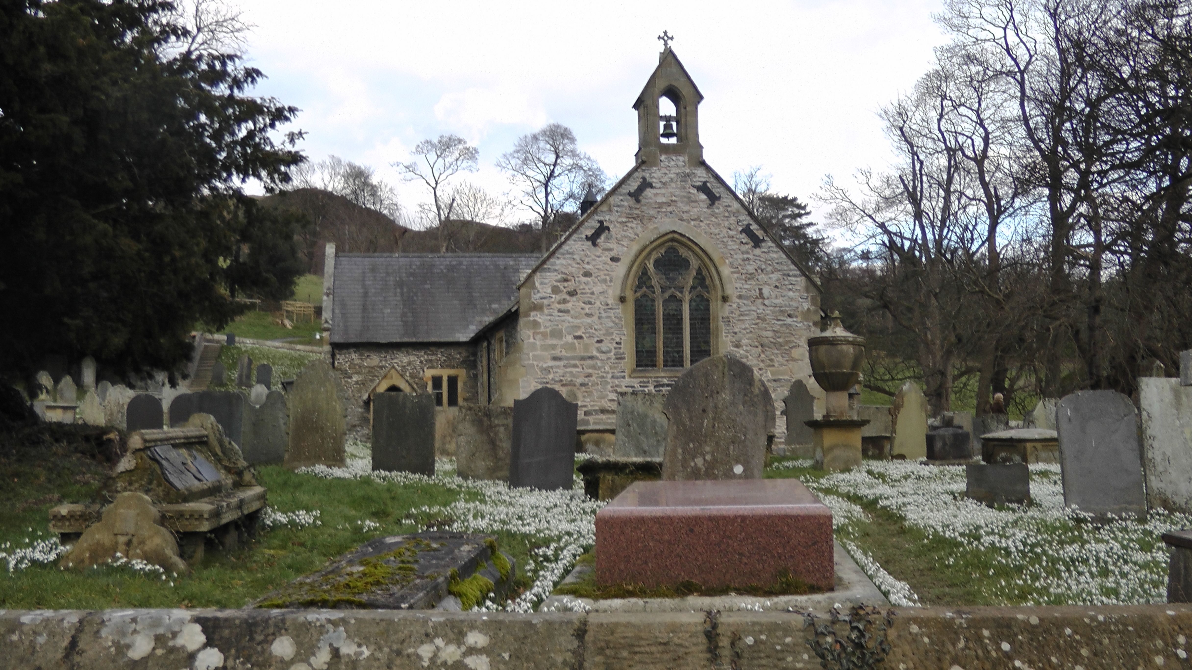 July 2015